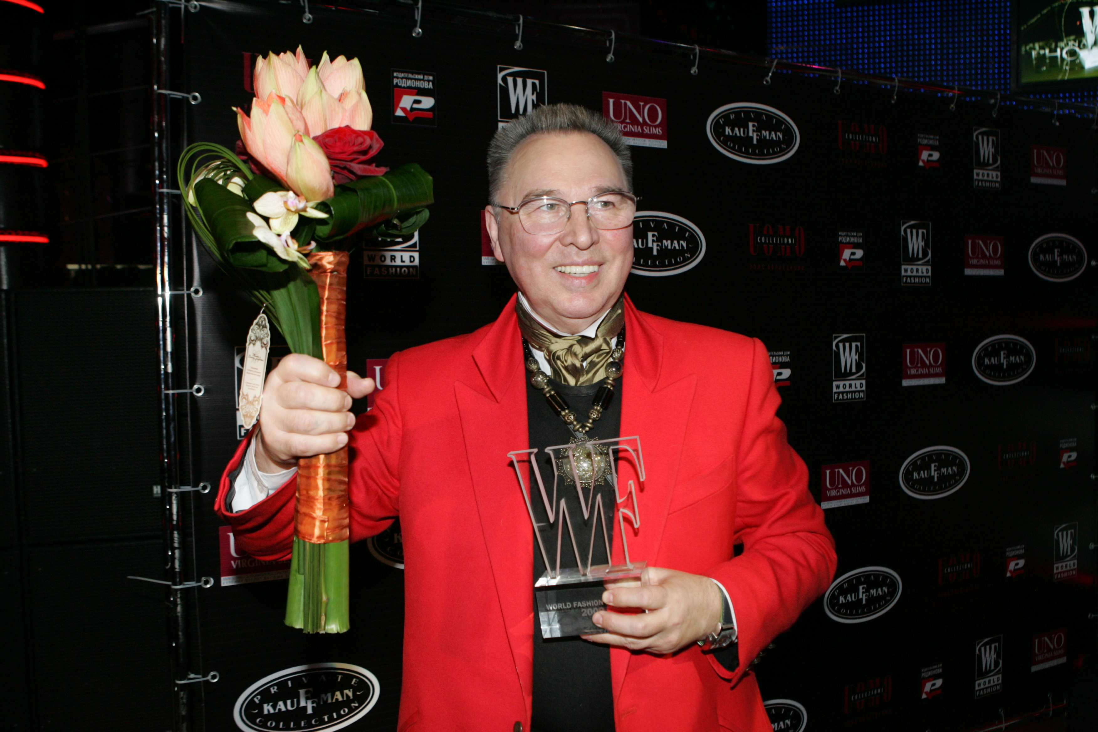 Slava Zaitsev